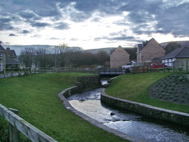 Limy Water, Love Clough